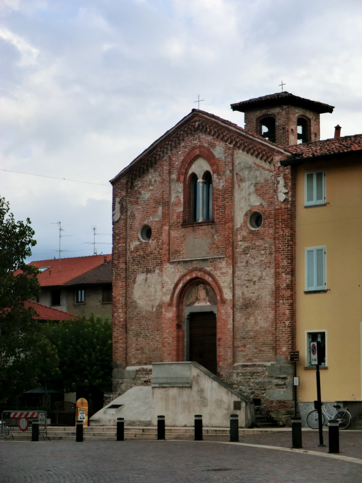 St Stephan Oratory, Lentate sul Seveso Native nameOratorio di Santo StefanoLocationLentate sul Seveso, Lombardy, ItalyCoordinates45° 40′ 42.45″ N, 9° 07′ 19.65″ E Established1369Web page control : Q3884882 VIAF: 132917749 LCCN: no2008167329 GND: 7615023-9 WorldCat institution QS:P195,Q3884882